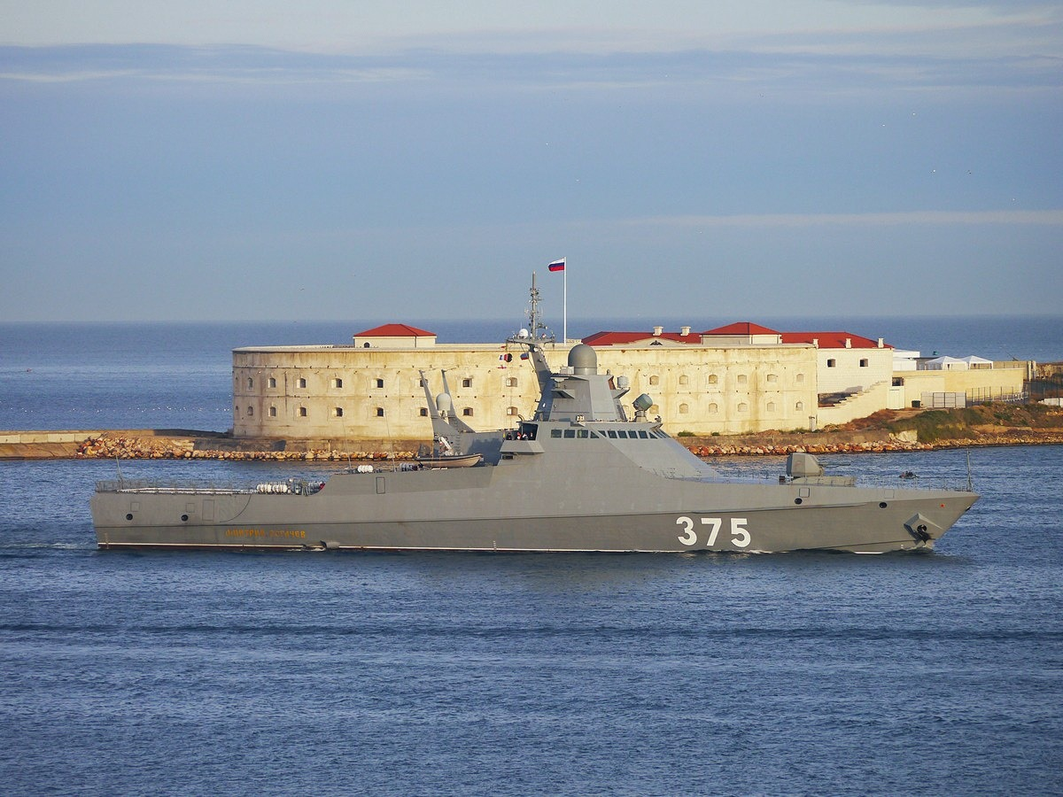 Dmitriy Rogachyov in Sevastopol.